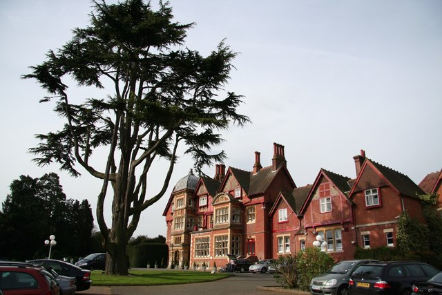 Pendley Manor Hotel Entrance front to Pendley Manor Hotel